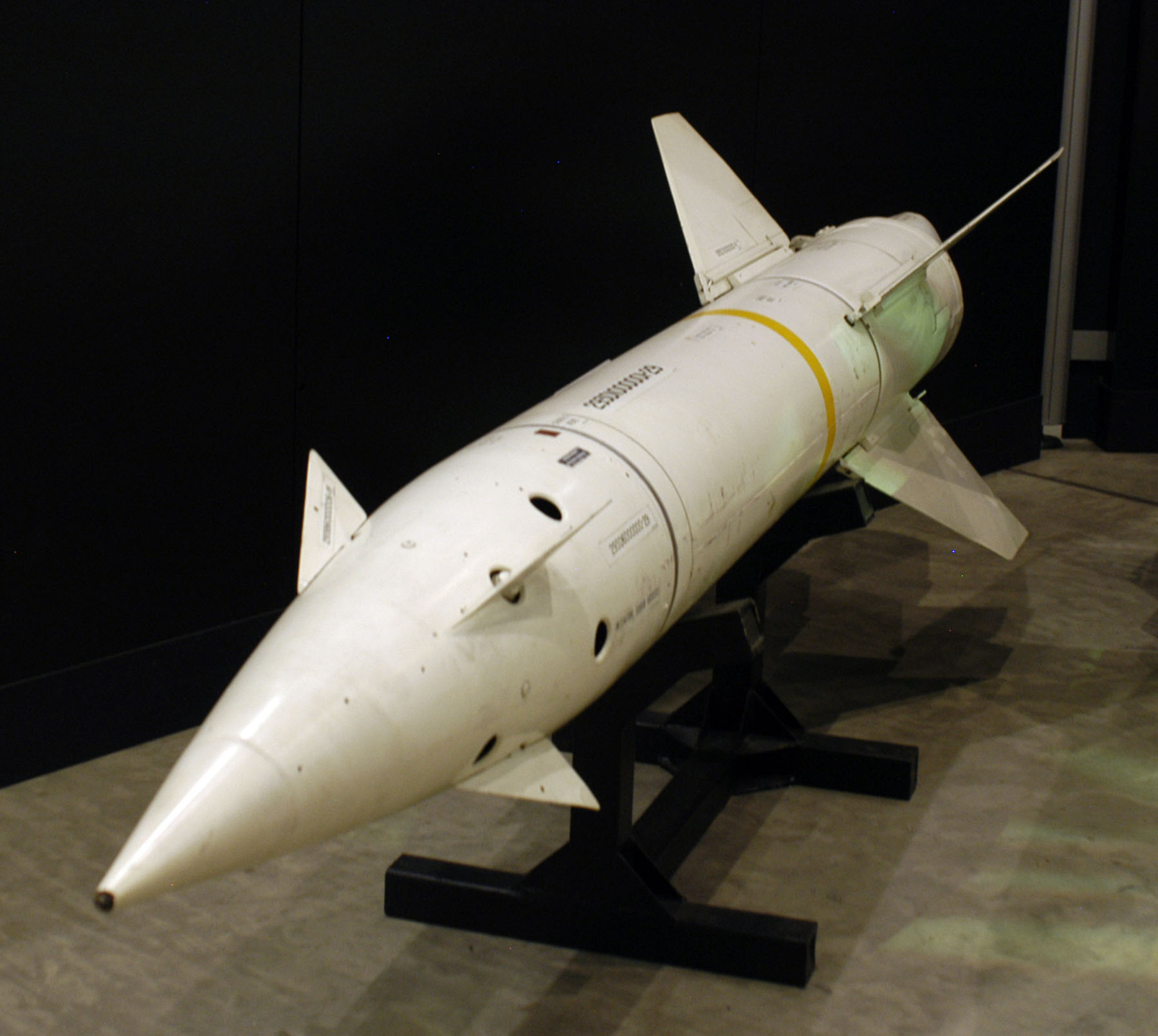 DAYTON, Ohio - Martin AGM-12B Bullpup on display at the National Museum of the U.S. Air Force. (U.S. Air Force photo)